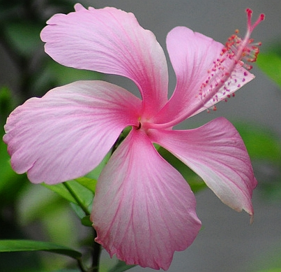 Pink Hibiscus (Hibiscus Rosasinensis) taken at Yercaud, Salem, India